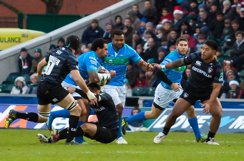 Leicester Tigers vs Benetton Treviso in a Heineken Cup Pool Game at Welford Road, Leicester, England